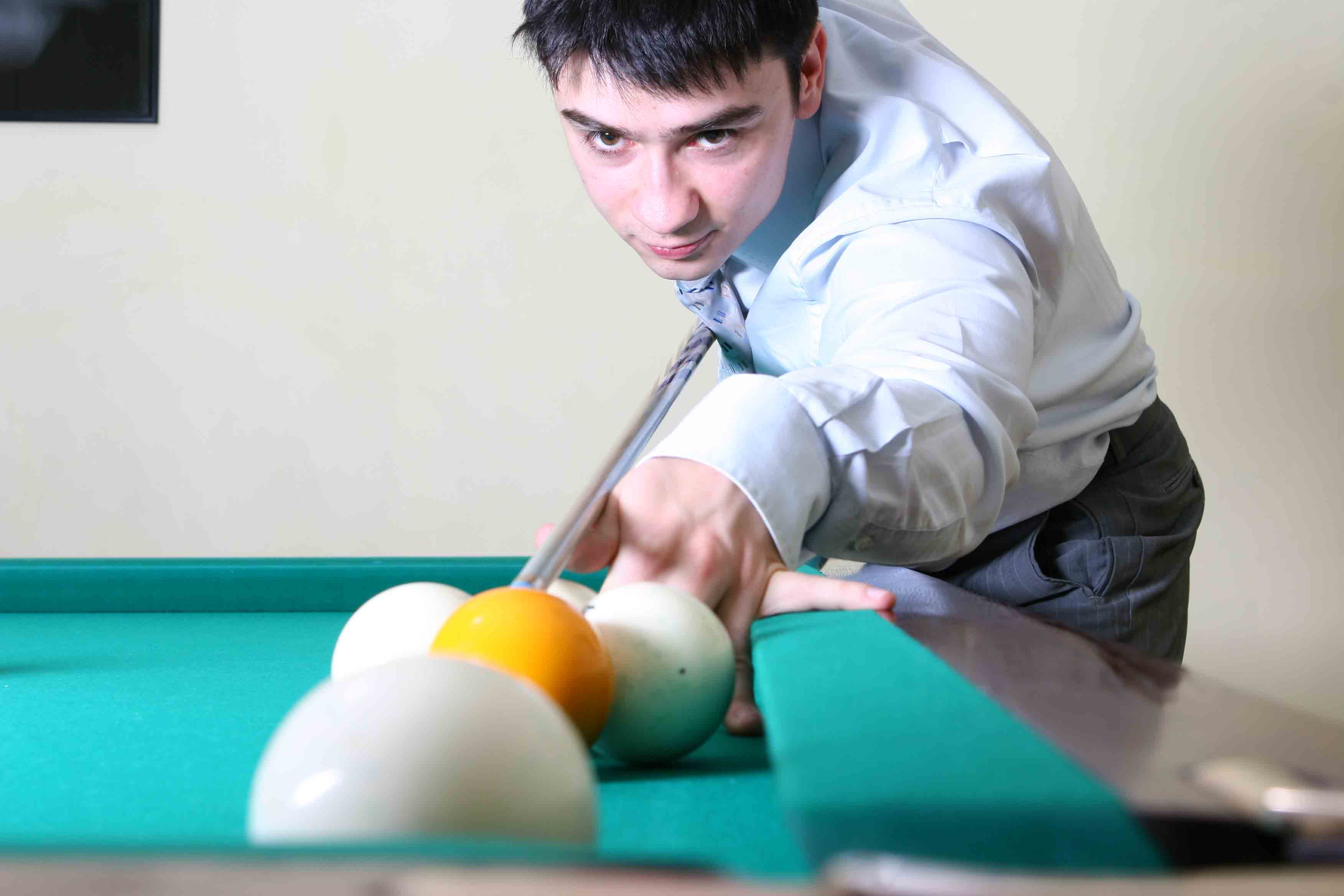 Paschinsky Yury, russian billiard player